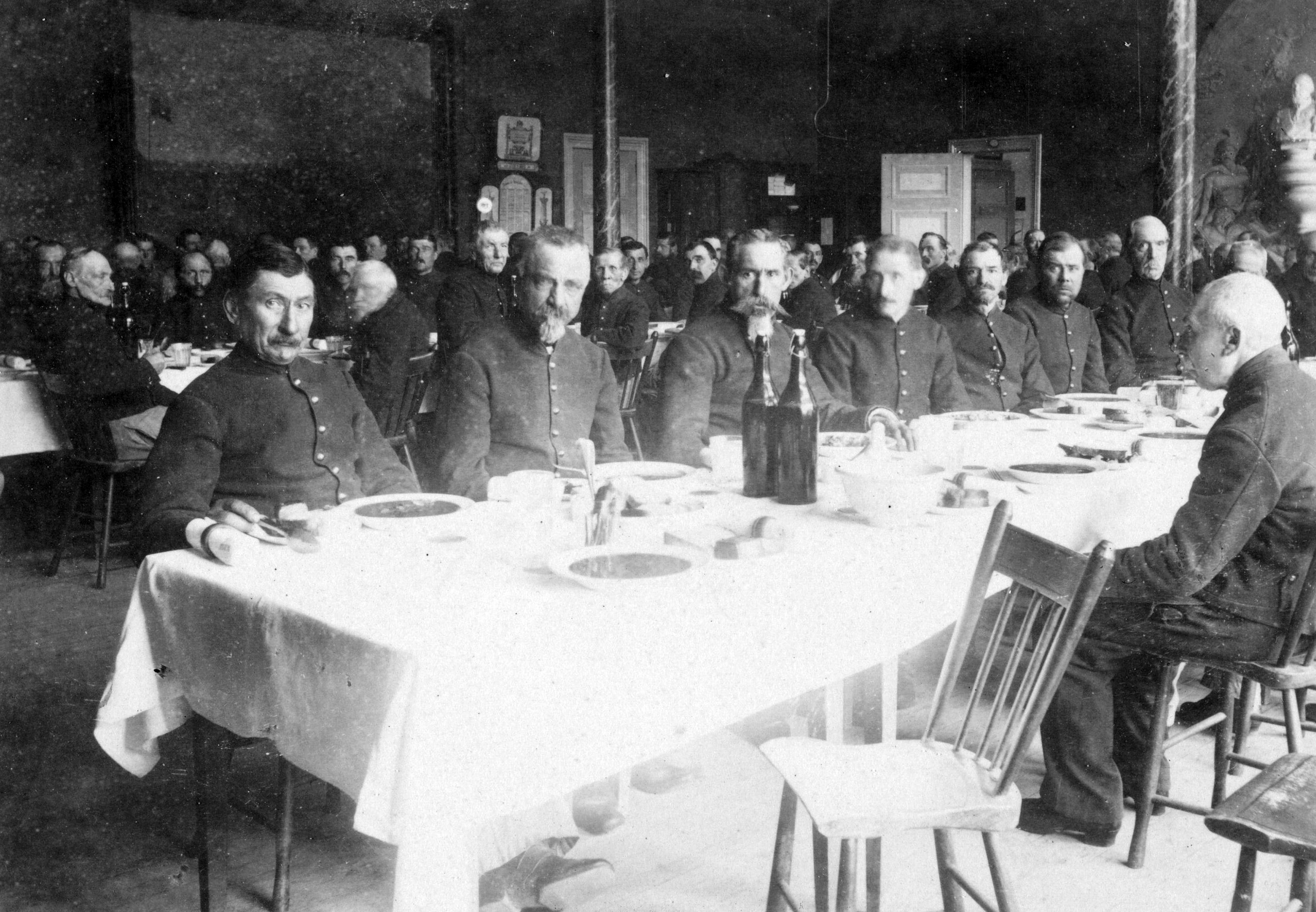 Spaarnestad Photo/SFA022800579 Inwoners van het Koninklijk tehuis voor KNIL-militairen Bronbeek in Arnhem in uniformen aan tafel aan de maaltijd. Nederland, 1912.